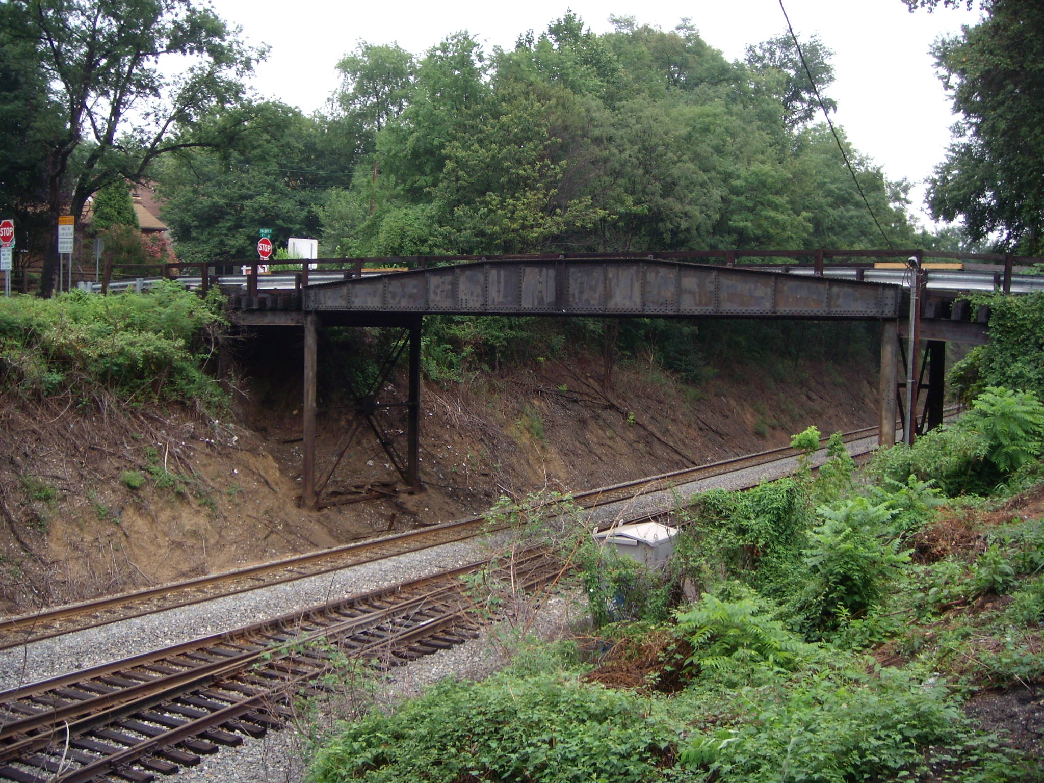 The Purple Line and Capital Crescent Trail would pass under the Talbot Avenue bridge on the CSX right-of-way.